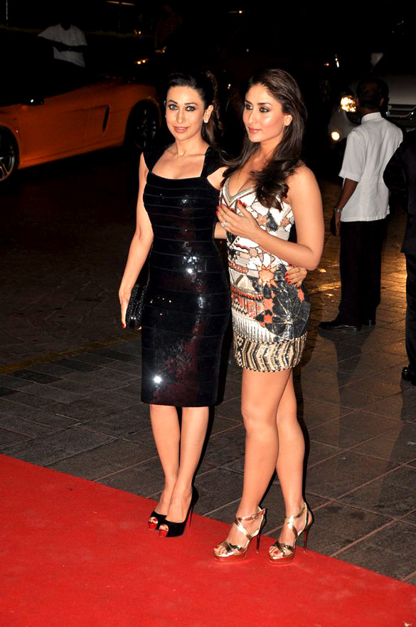 Karisma Kapoor with his sister Kareena Kapoor at Karan Johar's 40th birthday bash at Taj Lands End